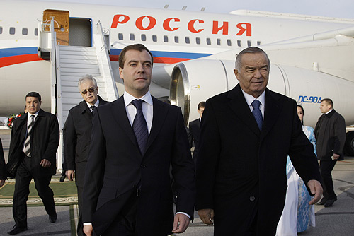 Arrival in Samarkand. With President of Uzbekistan Islam Karimov.